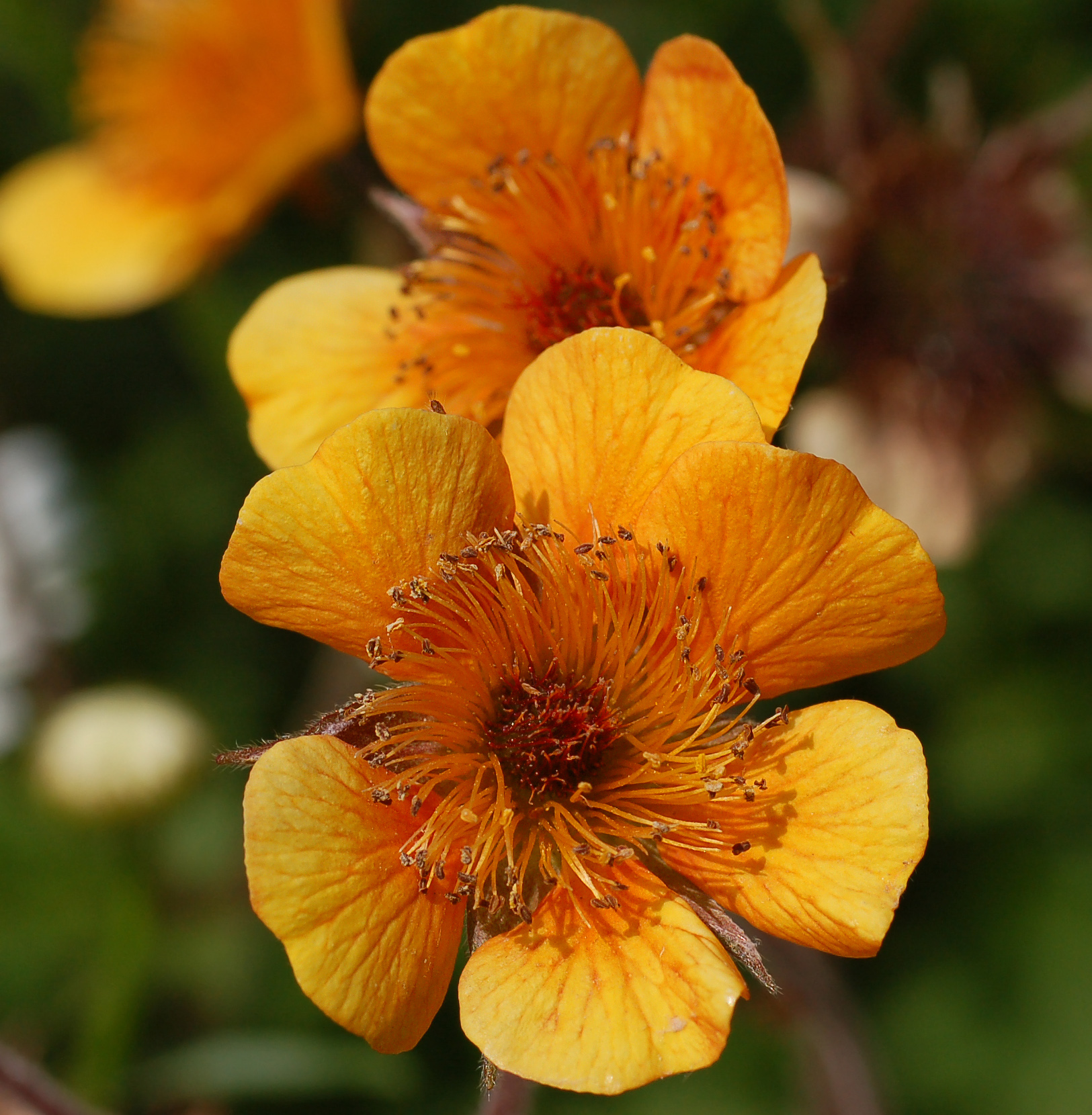 Picture of the flower of the Geum en 'Beech House'. Photo taken in the Pond Garden Bed 2 at the Chanticleer Garden where it was species identified.